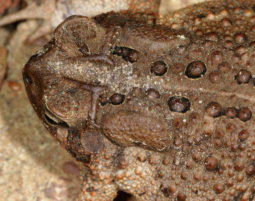 American Toad, Bufo americanus, detail shows "warts", parotoid glands not quite touching cranials--useful for distinguishing other species of Bufo. (Reference: Conant et al. (1998). A Field Guide to Reptiles and Amphibians of Eastern and Central North America. Boston: Houghton Mifflin. ISBN 0395904528.) Location: Durham County, North Carolina, United States.